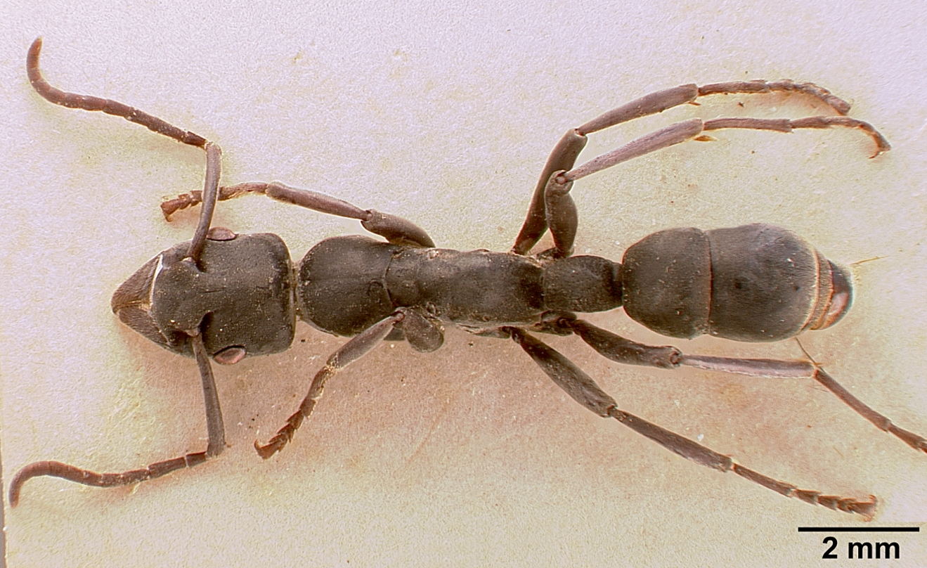 Dorsal view of ant Platythyrea conradti specimen sam-hym-c002301a.